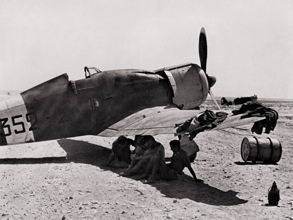 Fiat G.50 - Pilots and ground-crew of the 352nd Squadron having a rest. Cirenaica, August 1941